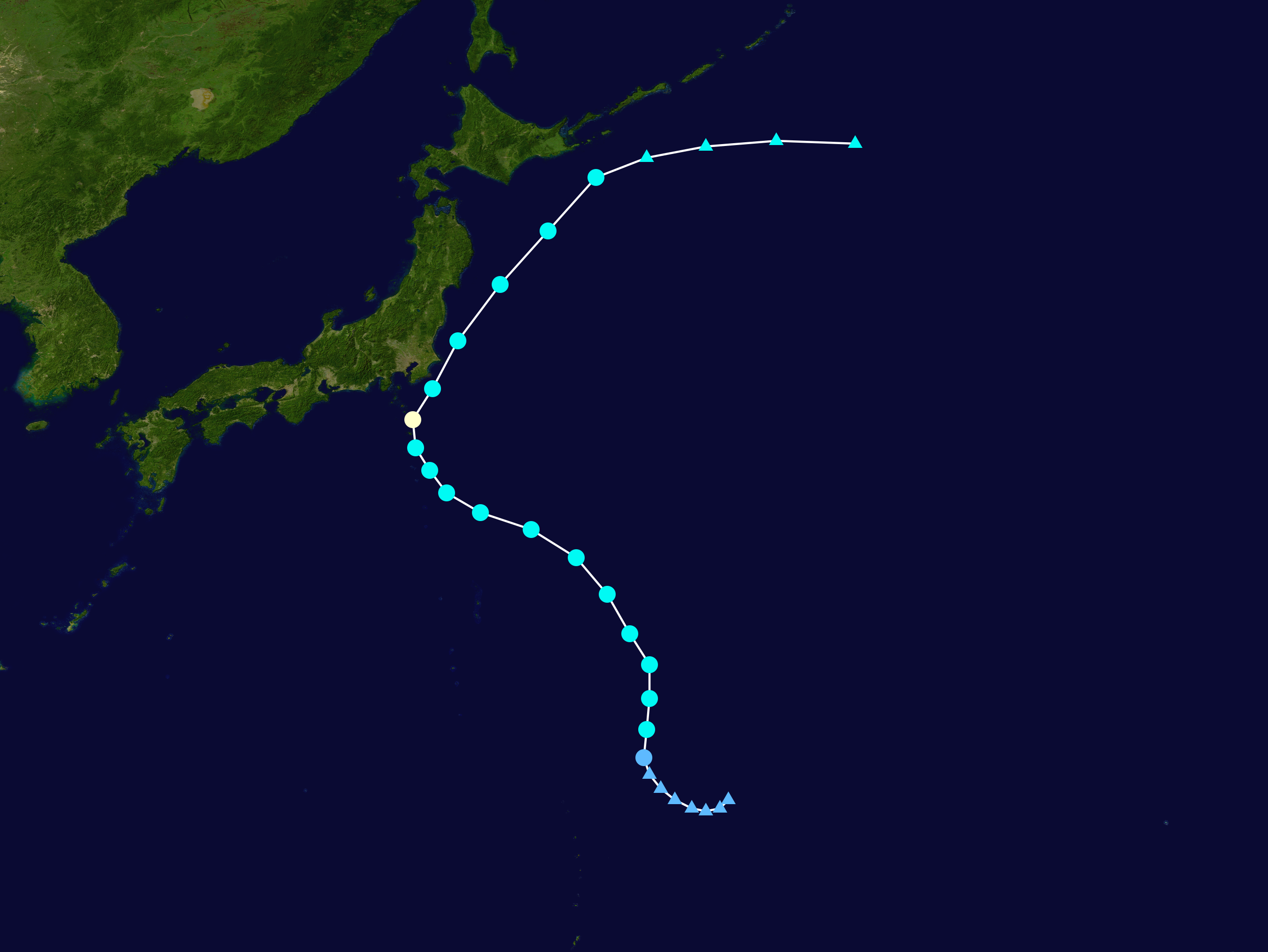 Track map of Severe Tropical Storm Krovanh of the 2009 Pacific typhoon season. The points show the location of the storm at 6-hour intervals. The colour represents the storm's maximum sustained wind speeds as classified in the Saffir–Simpson scale (see below), and the shape of the data points represent the nature of the storm, according to the legend below. Saffir–Simpson scale Tropical depression≤38 mph≤62 km/h Category 3111–129 mph178–208 km/h Tropical storm39–73 mph63–118 km/h Category 4130–156 mph209–251 km/h Category 174–95 mph119–153 km/h Category 5≥157 mph≥252 km/h Category 296–110 mph154–177 km/h Unknown Storm type Tropical cyclone Subtropical cyclone Extratropical cyclone / Remnant low / Tropical disturbance / Monsoon depression